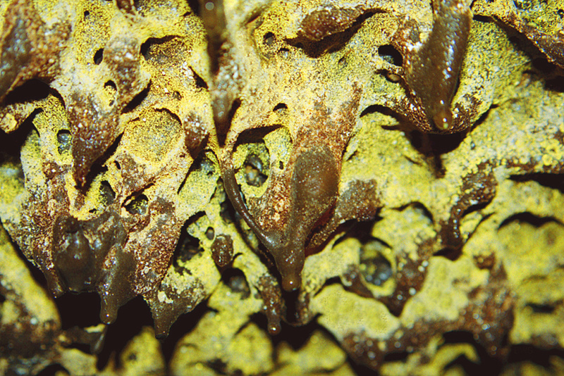 Lava Beds National Monument, California, USA, Golden Dome Lava Tube Cave